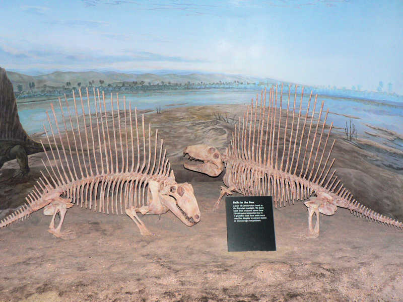 Two Dimetrodon skeletons. Taken at the Royal Tyrrell Museum.